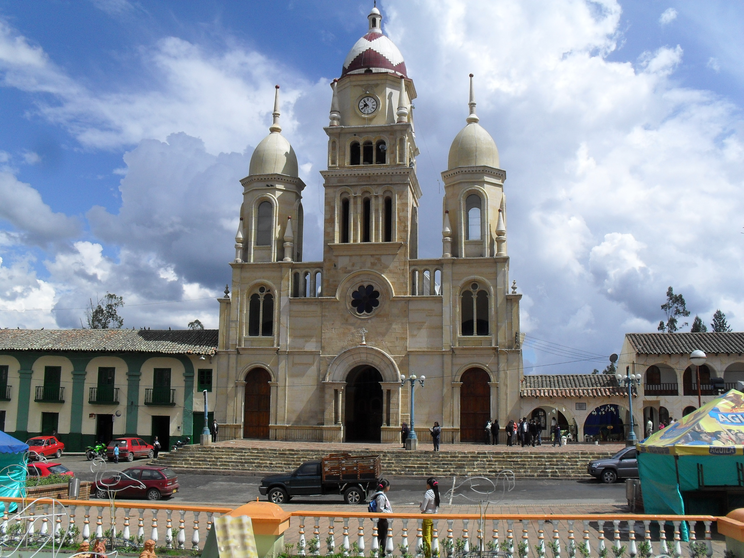 Iglesia en el municipio de Ventaquemada, Boyacá, Colombia